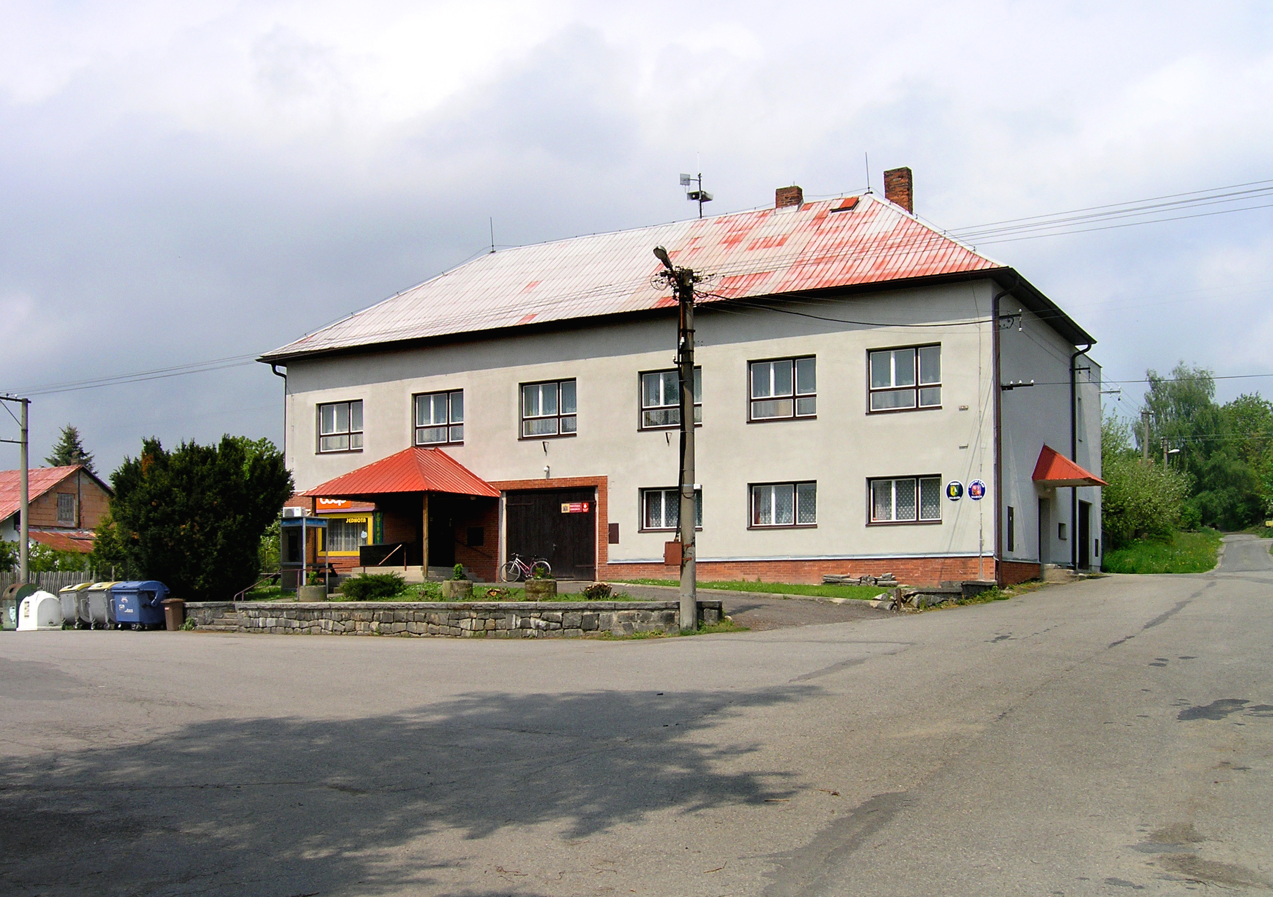 Municipal office in Kojetín village, Czech Republic